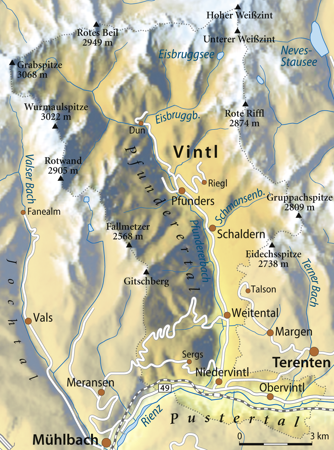 Map of the municipality of Vintl